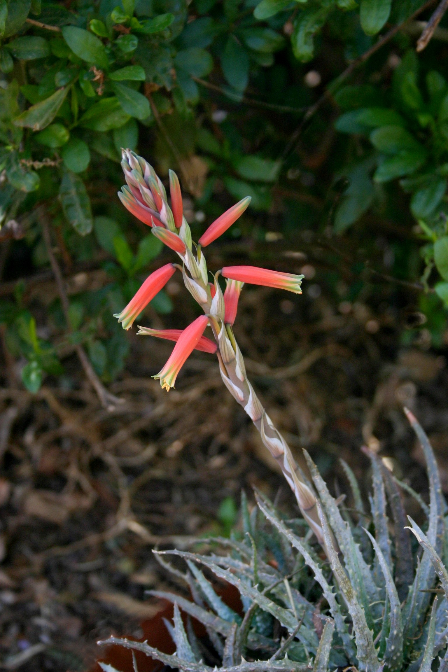 Aloe humilis cultivated at Honeydew in Johannesburg